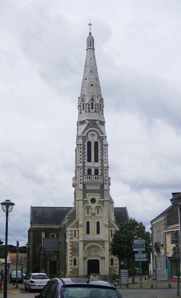 The Eglise de Brains, in the commune of Brains, Loire-Atlantique, France.